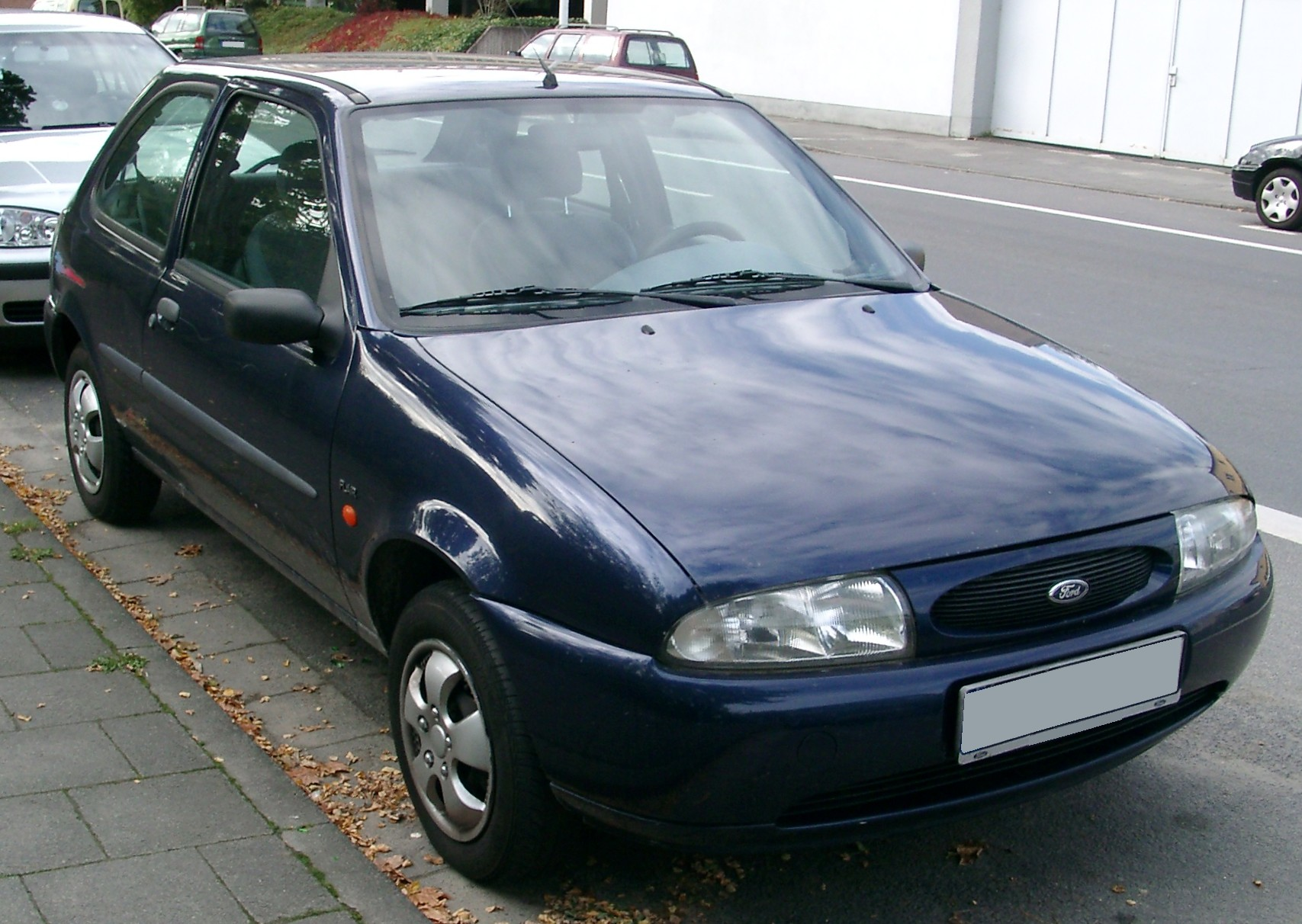 Ford Fiesta MK4